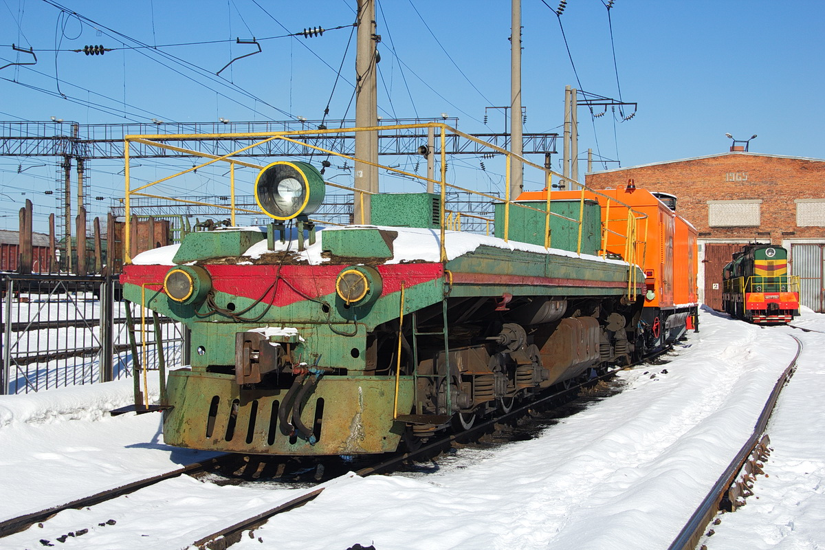 Motor booster modernized from TE3 diesel locomotive.Russia, Arkhangelsk Oblast, Nyandoma depot